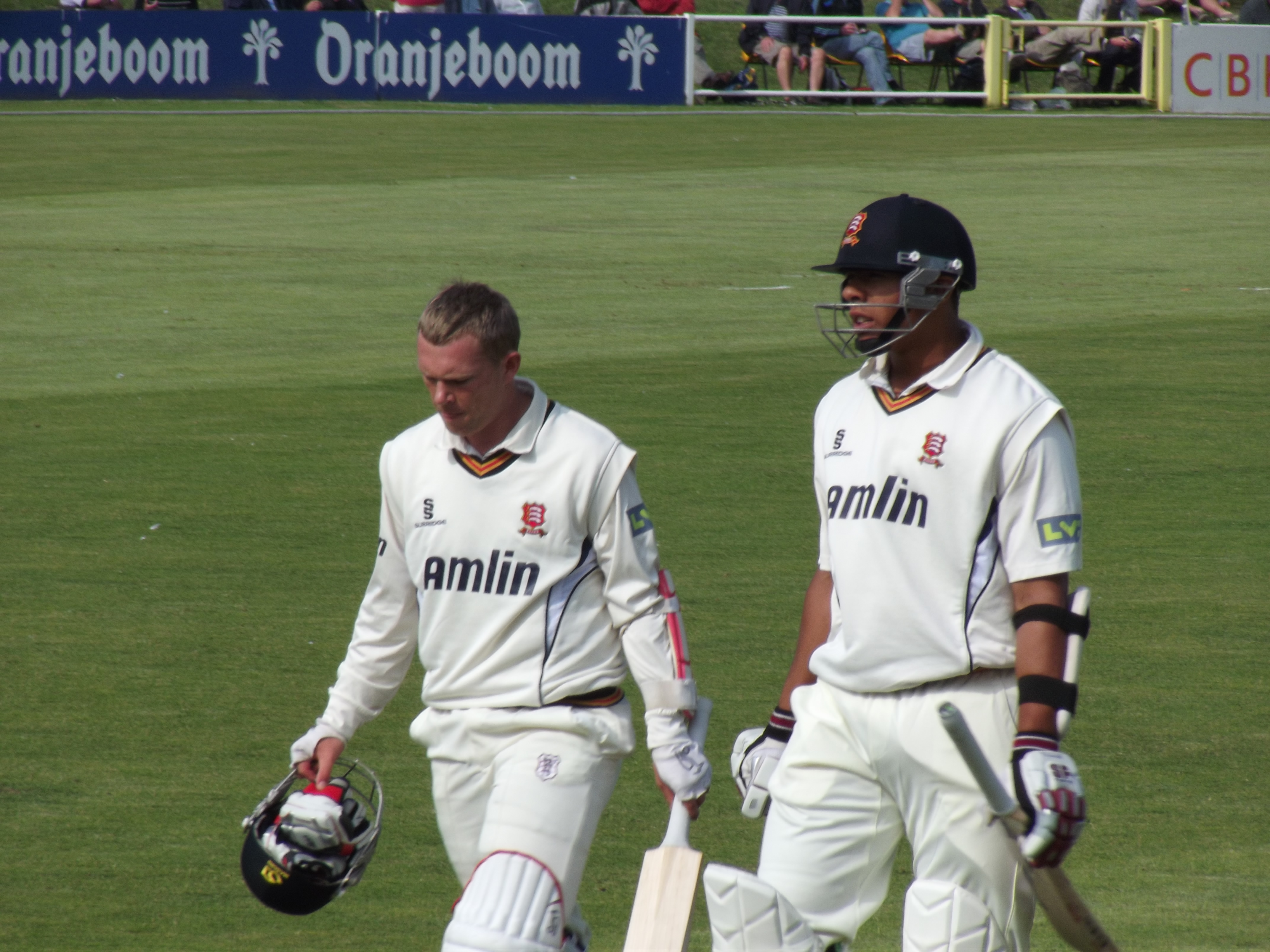 Tom Craddock and Tymal Mills at Garon Park, Southend